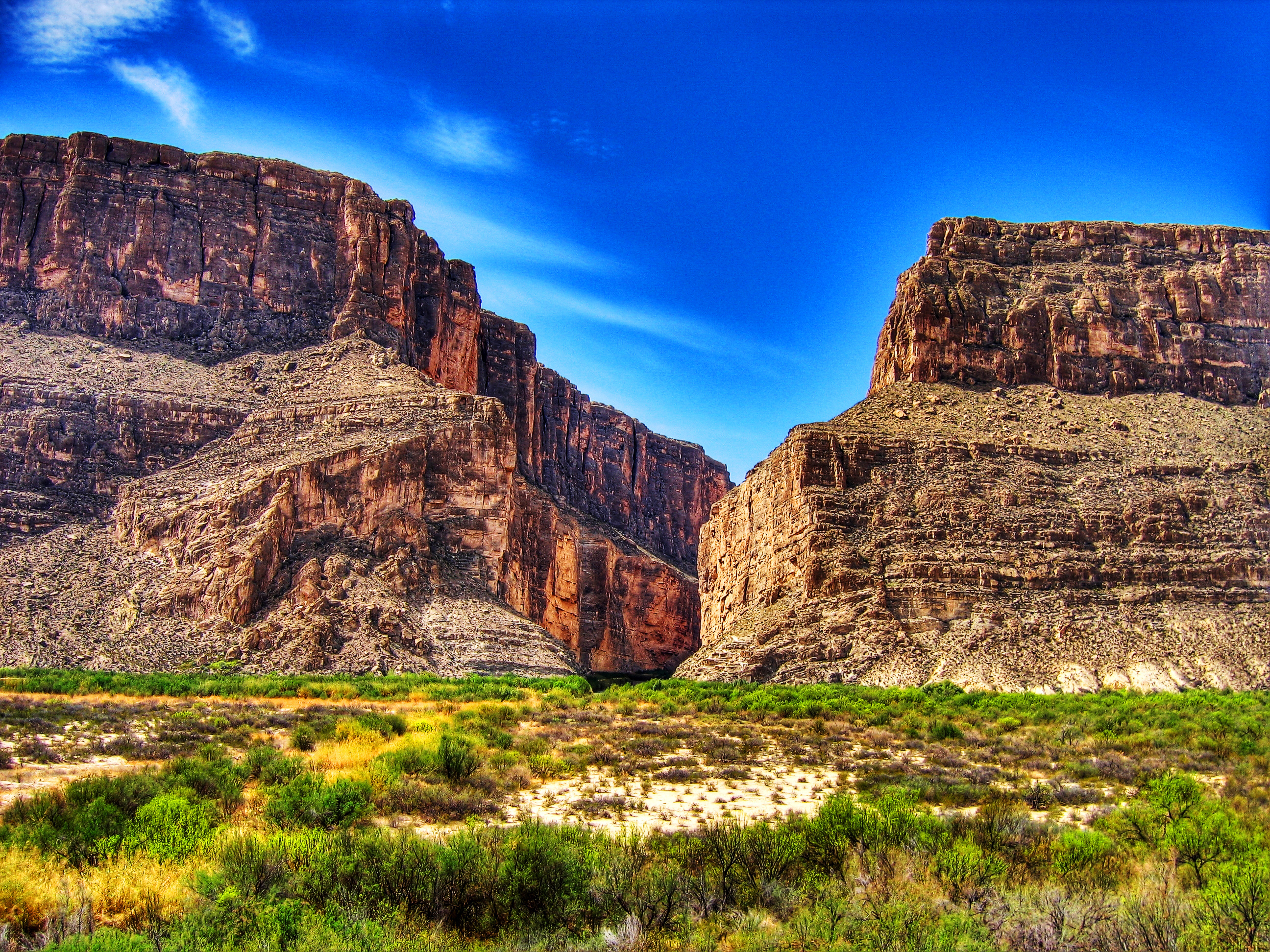 The Santa Elena Canyon at the Big Bend National Park.